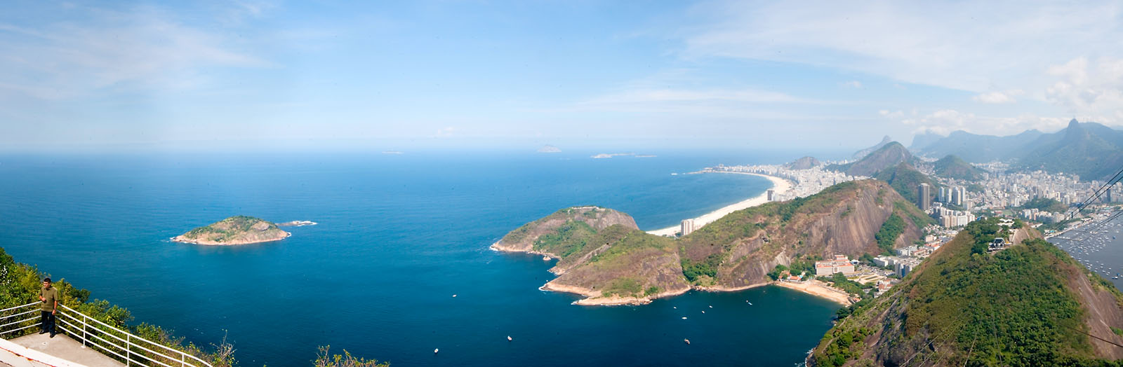 Panorama from the top of Sugar Loaf. My panoramic head broke on the way to Brazil, so I had to make do with just my tripod. This one had much less parallax (subjects were further away) than the Corcovado. I'm happy with the way it turned out. Per usual, more detail here than can be captured in the small size.